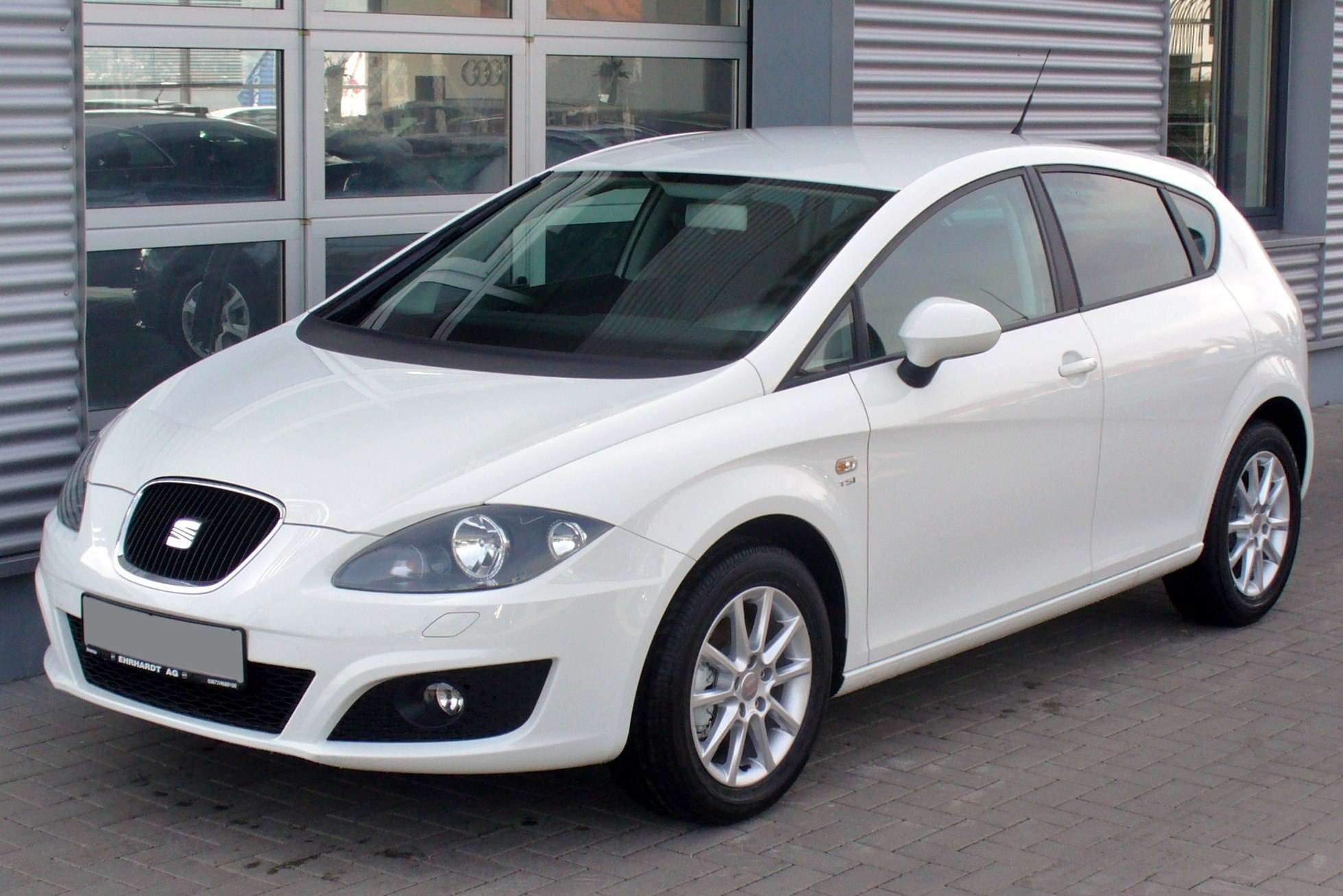 Seat Leon